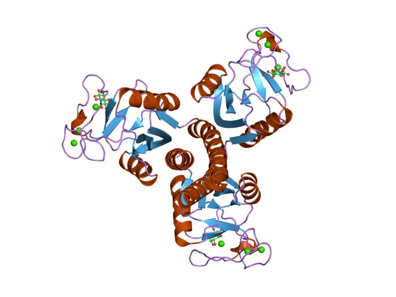 Cartoon representation of the molecular structure of protein registered with 2os9 code.